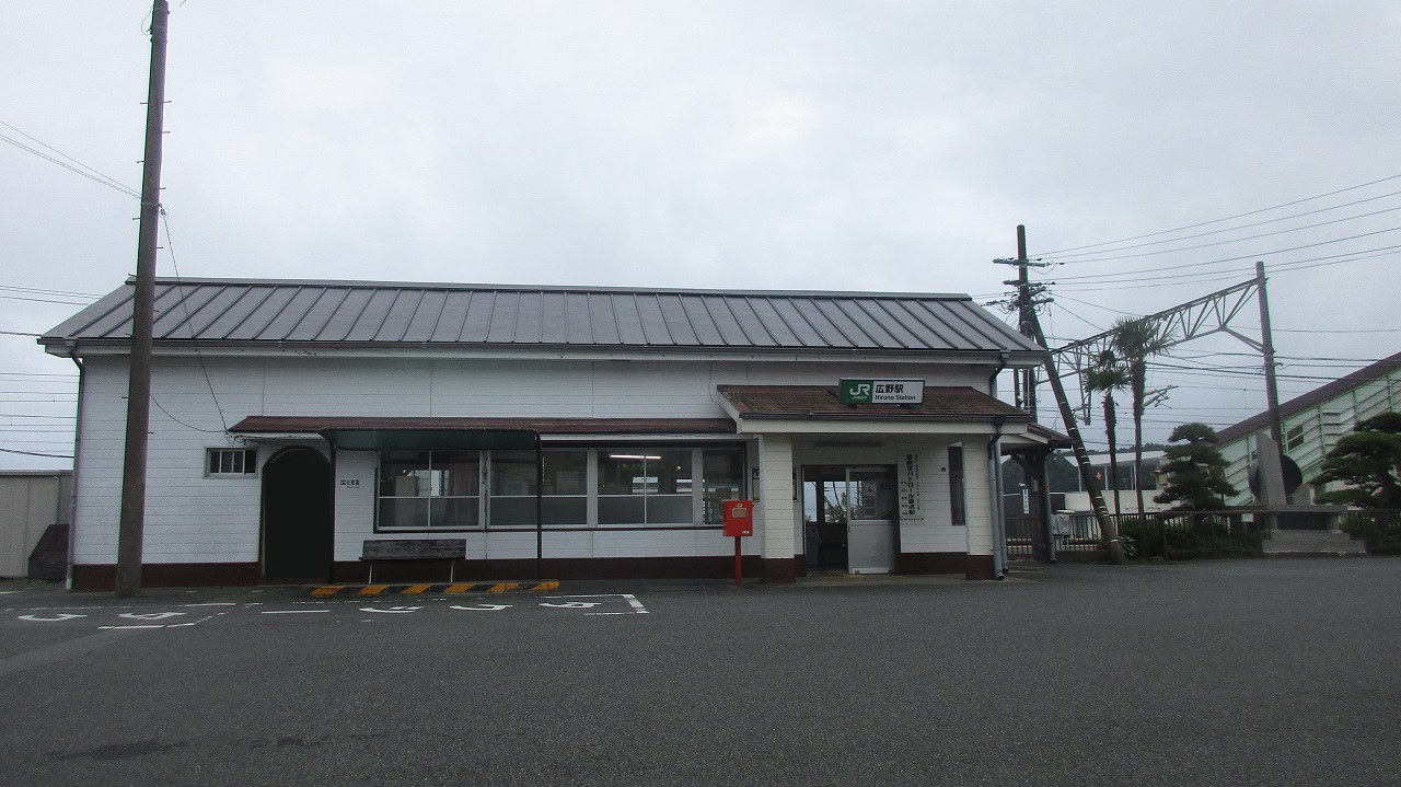 JR常磐線 広野駅舎